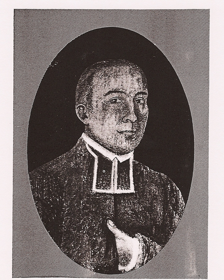 Portrait of Joseph Marcoux